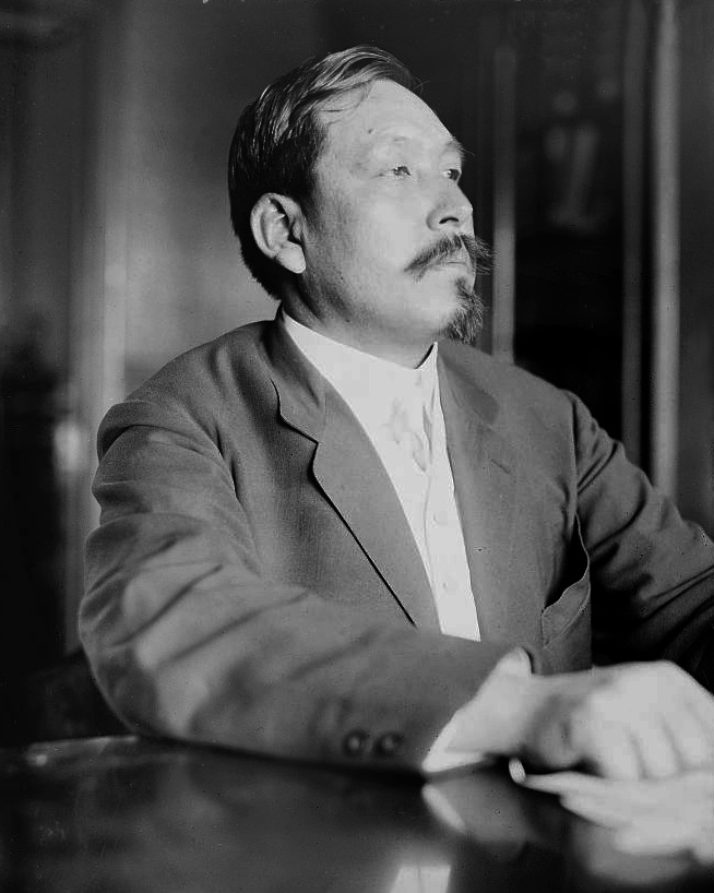 Bain News Service,, publisher. Kametaro Iijima, Japan's Consul General in 1913 [1913 July 14] 1 negative : glass ; 5 x 7 in. or smaller. Notes: Title and date from unverified data provided by the Bain News Service on the negative. Forms part of: George Grantham Bain Collection (Library of Congress). Format: Glass negatives. Repository: Library of Congress, Prints and Photographs Division, Washington, D.C. 20540 USA, General information about the Bain Collection is available at Persistent URL: Call Number: LC-B2- 2761-12